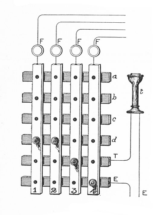 NB - Note that this is not a crossbar switch. A crossbar (akin to this diagram) would have in and out connections (lines and instruments) running parallel, with a number of crossbars (representing the total simultaneous call capacity) running across them. In this early and simpler form, the lines and instruments are connected directly. This requires more connection points in total, for a moderately sized public exchange this soon becomes a huge number of potential connections. This is in fact a manual crossbar. It has the capacity of four subscriber lines (top) and four horizontal talking paths (albeit not needed for four subscribers). The fifth crossbar is the operator circuit, and at the bottom is the ground bar for enabling the signal indicators for idle subscribers. Kbrose (talk) 17:19, 4 February 2019 (UTC)